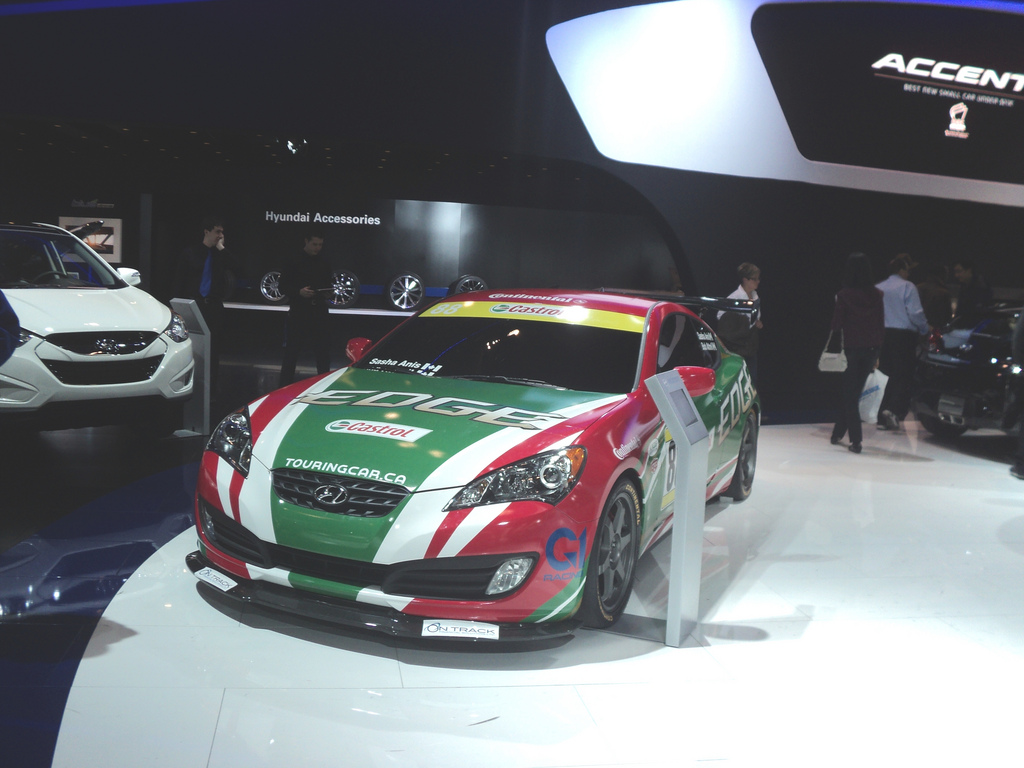 Hyundai Touring car, from the Castrol Canadian Touring Car Championship.